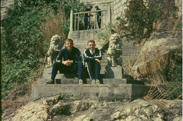 German amateur international footballers Walter Kitter & Günther Maaß